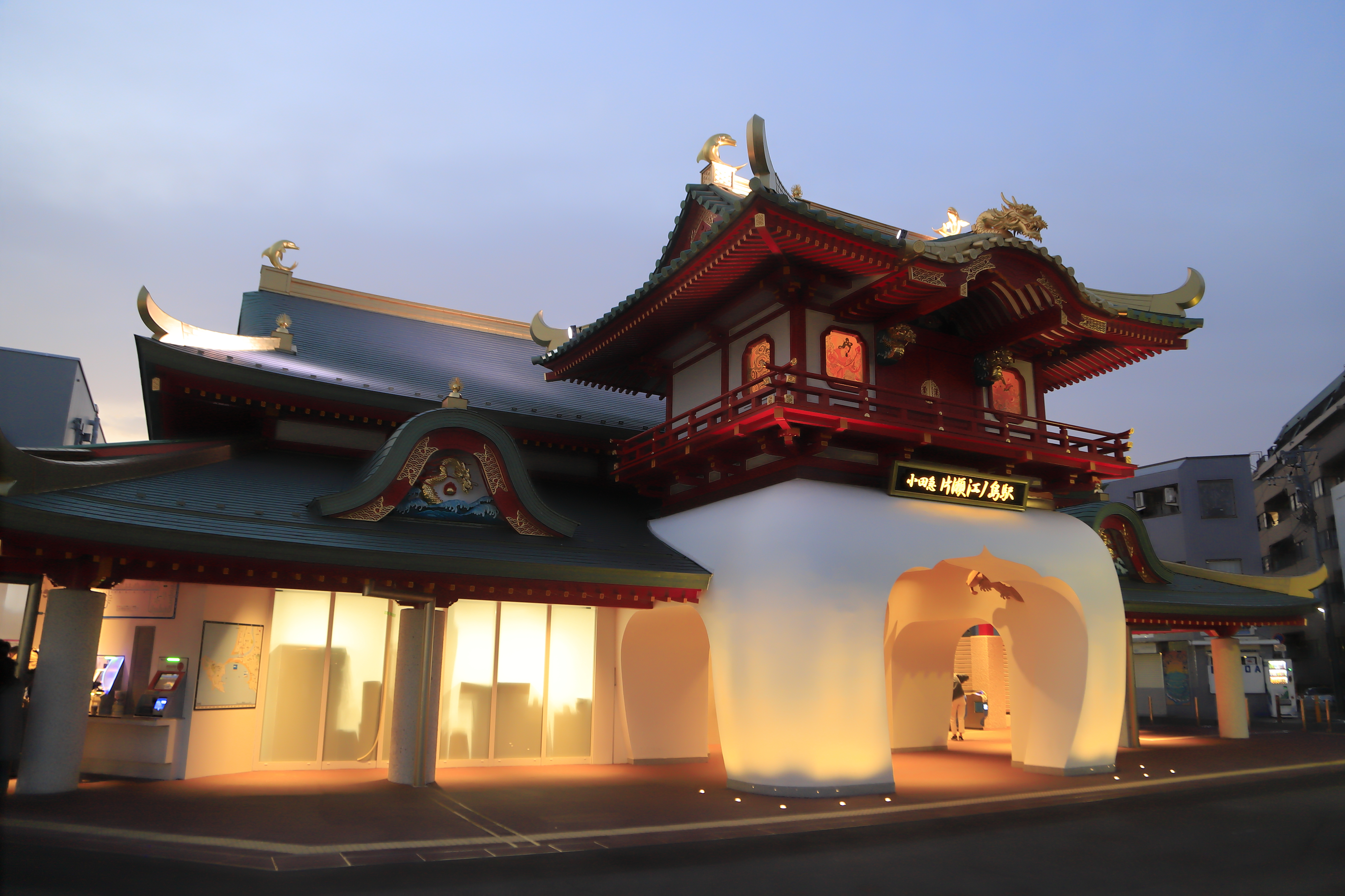 The newly built Katase-Enoshima station. Taken on March 22, 2020.